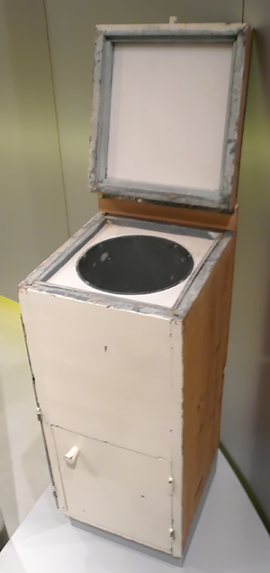 Hay box cooker. The depicted hay box cooker was an add-on of the Frankfurt kitchen (1926-1930) as found in the Siedlung Praunheim. A pot without handles can be inserted in to the cylindrical cavity underneath the flap. The lower door opens some storage space. Materials: Wood and metal.